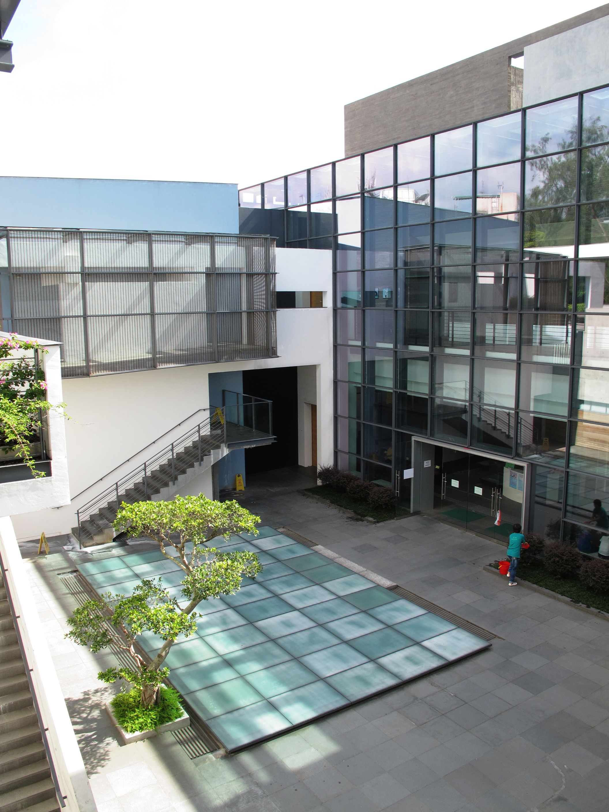 Stanley Municipal Services Building